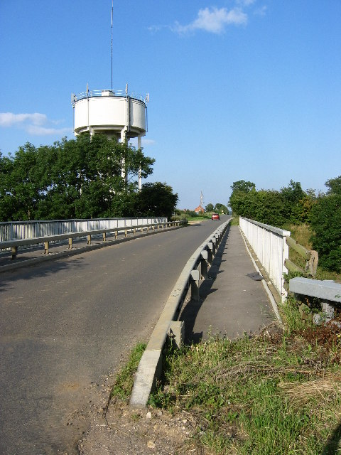 Gorse Lane, Grantham. This bridge carries Gorse Lane over the A1 at SK 909 335. The water tower is at SK 910 335